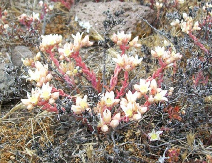 Dudleya nesiotica USFWS photo